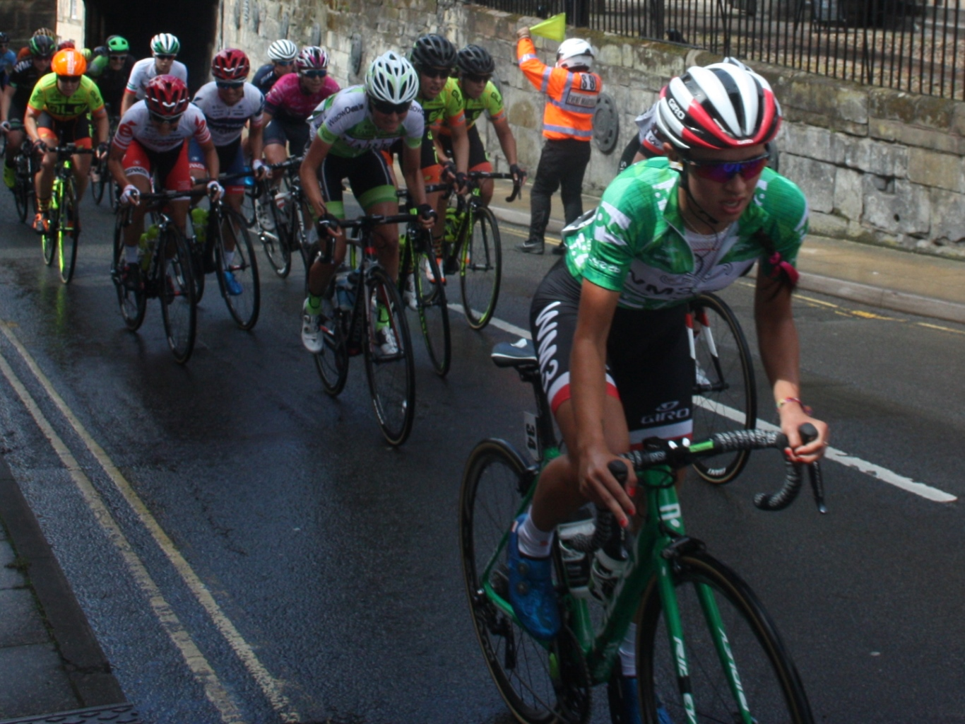 Kasia Niewiadoma, in the race leader's green jersey, rides through Warwick with the peloton during stage 3 of the 2017 Women's Tour.